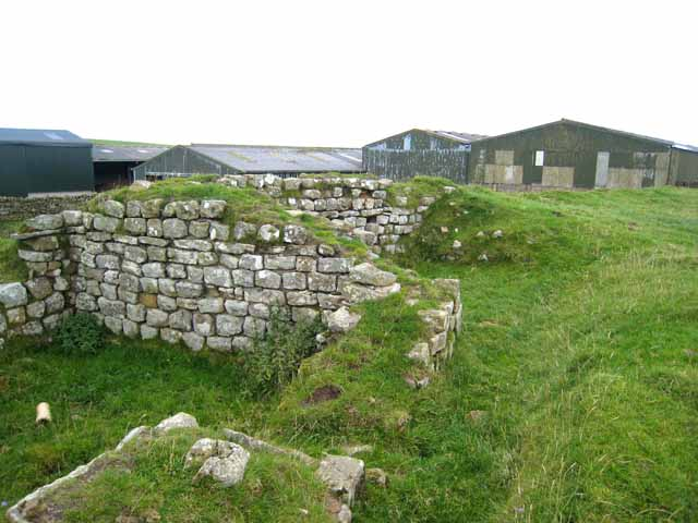 Ancient and Modern at Great Chesters Aesica Roman Fort and Great Chesters Farm situated on Hadrian's Wall Hadrian's_Wall which is closely followed by a popular National Trail .